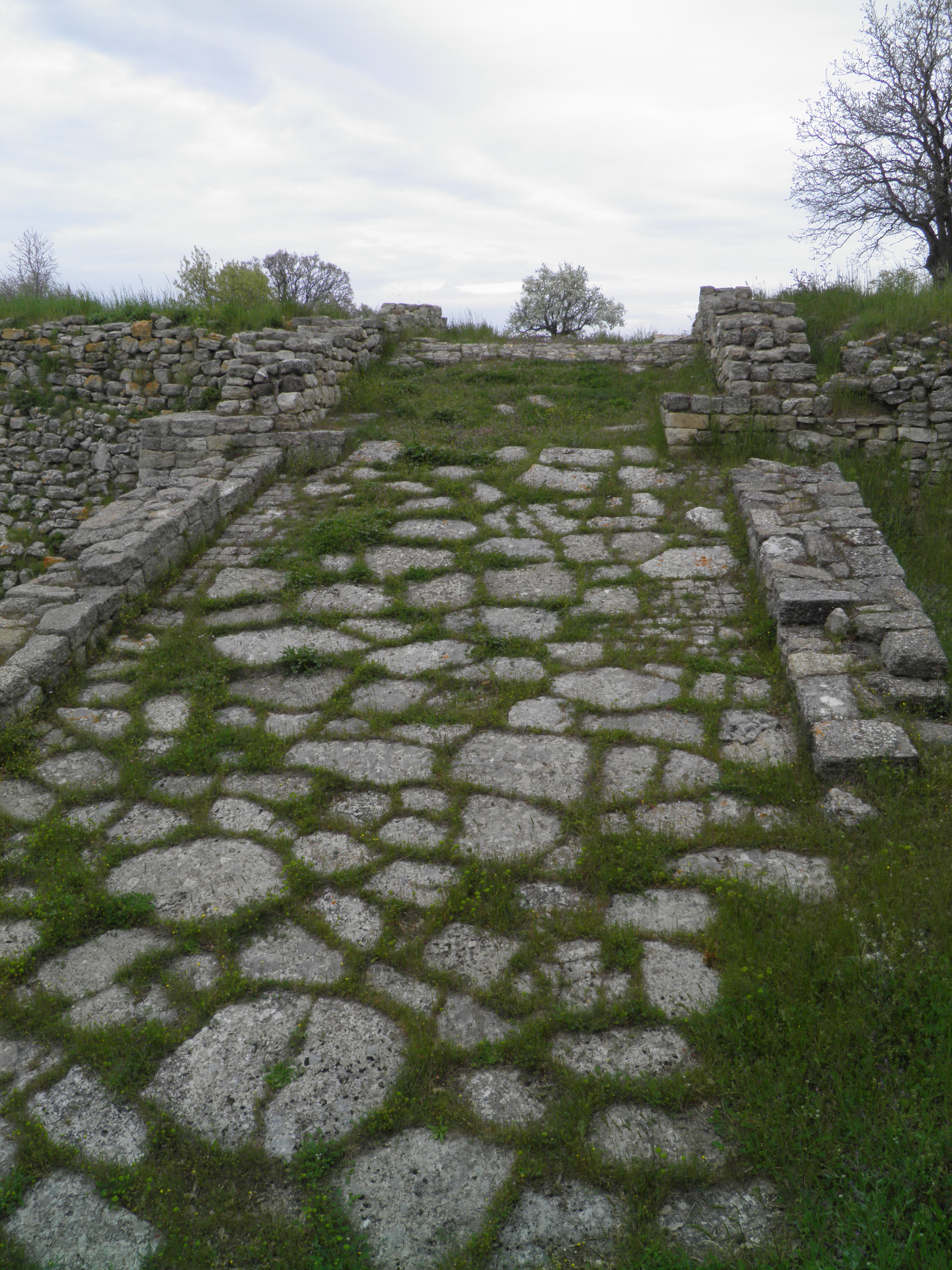 Troy (Ilion), Turkey